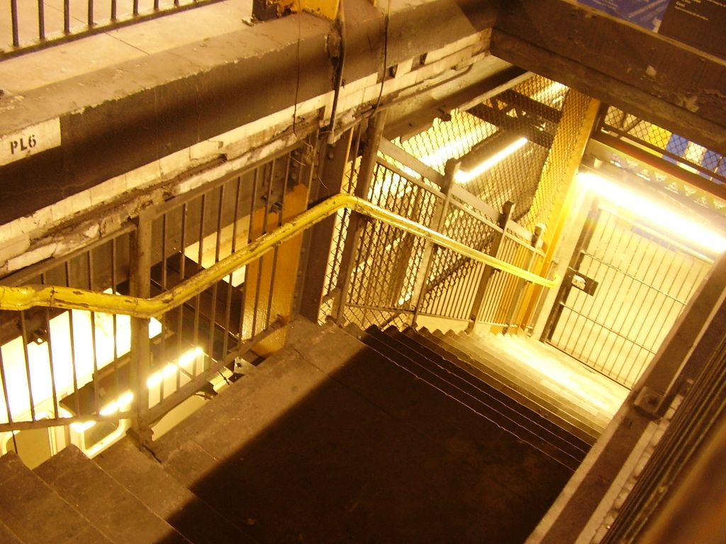 city hall train station